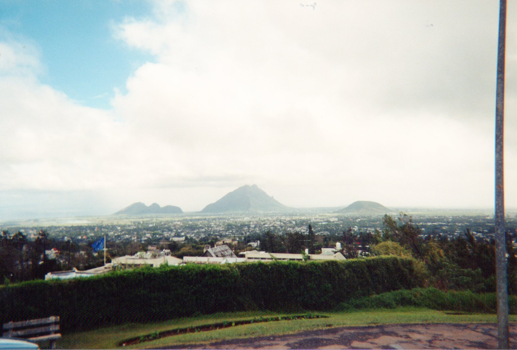 The view from Trou aux Cerfs